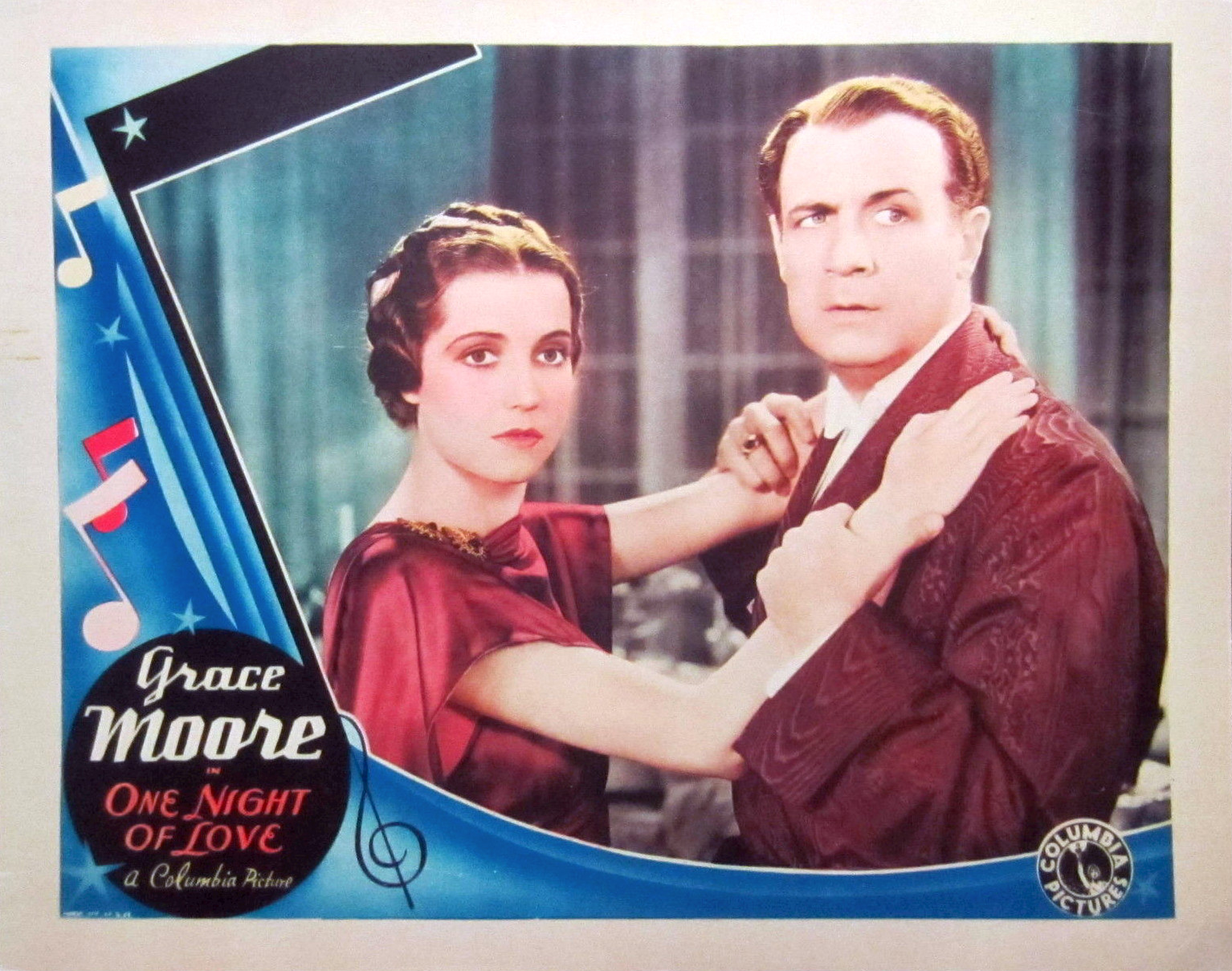 Lobby card for the American film One Night of Love (1934).